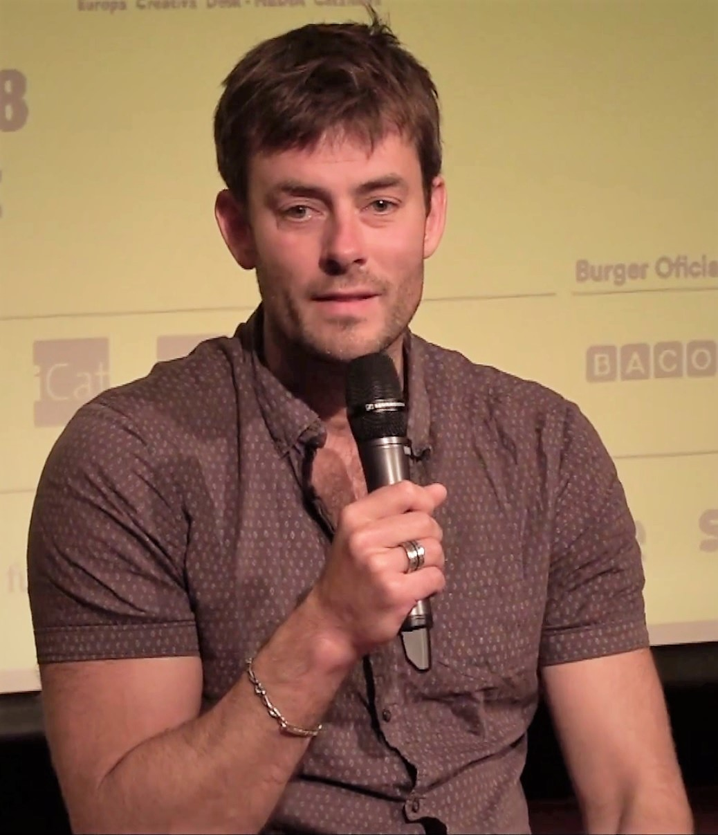 Sessió Pro Serielizados Fest (9/12) Icelandic case study, supported by Europa Creativa Desk - MEDIA Catalunya. “Upcoming Icelandic TV Fiction: Black Port, a coproduction in the works.”- Gísli Orn Gardarsson.